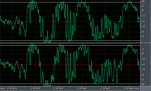 Image of a snare drum transient from "Cliffs of Dover" by Eric Johnson (Ah Via Musicom, 1990), processed with Adobe Audition's distortion feature to boost the audio by 9dB without clipping or using a compressor or limiter. This image shows the amount of distortion that would result if such a process were applied to the recording in an amount required to achieve the loudness standard of current popular compact discs.